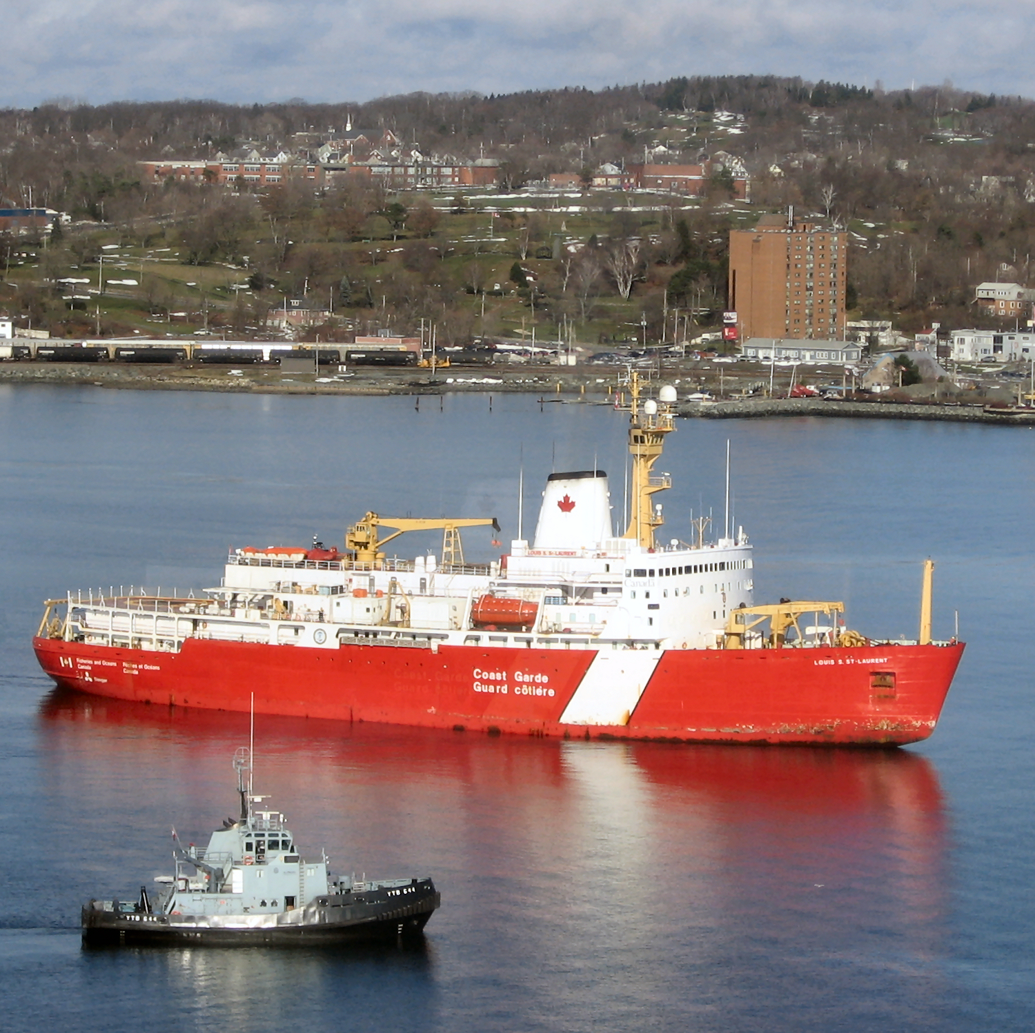 The CCGS Louis S. St-Laurent in Halifax Harbour with naval tender nearby.